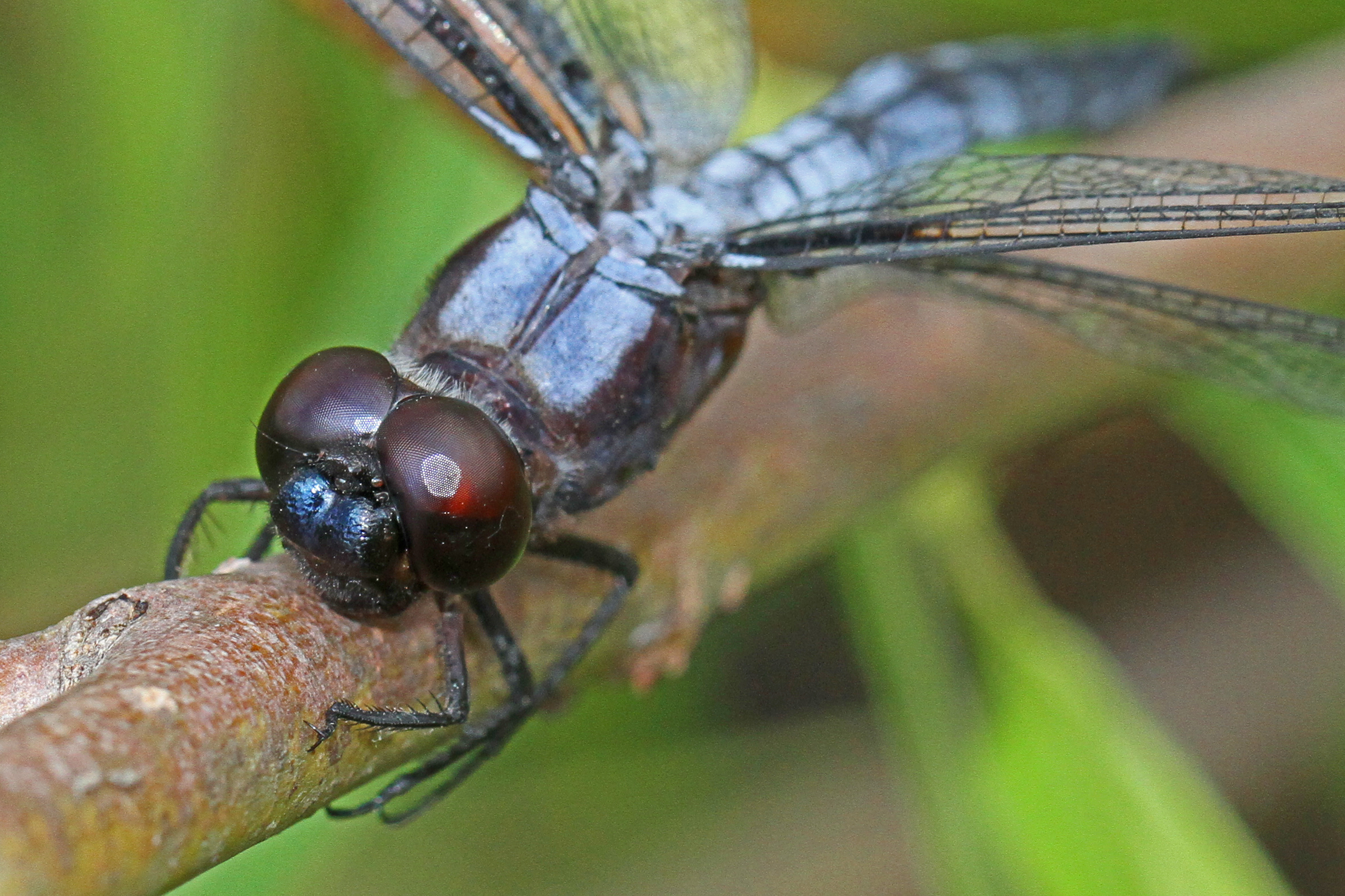 Bar-winged Skimmer (male) - Libellula axilena, Bles Park, Ashburn, Virginia. Not just another pretty face...